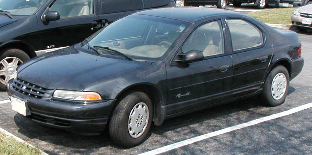 1996-2000 Plymouth Breeze photographed in USA.